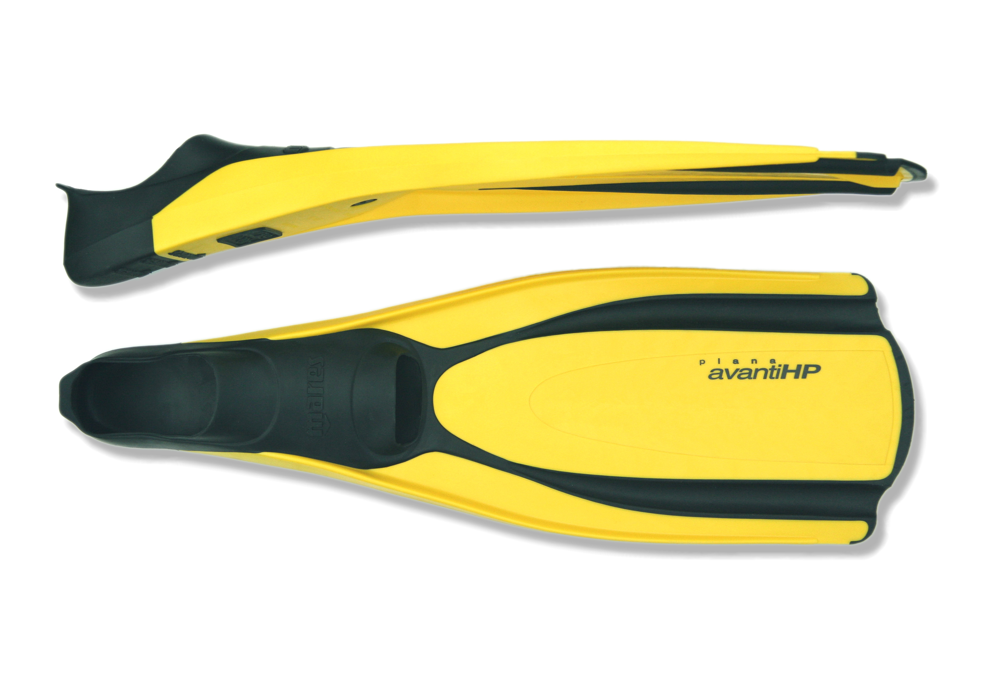 Swim fins (Mares)